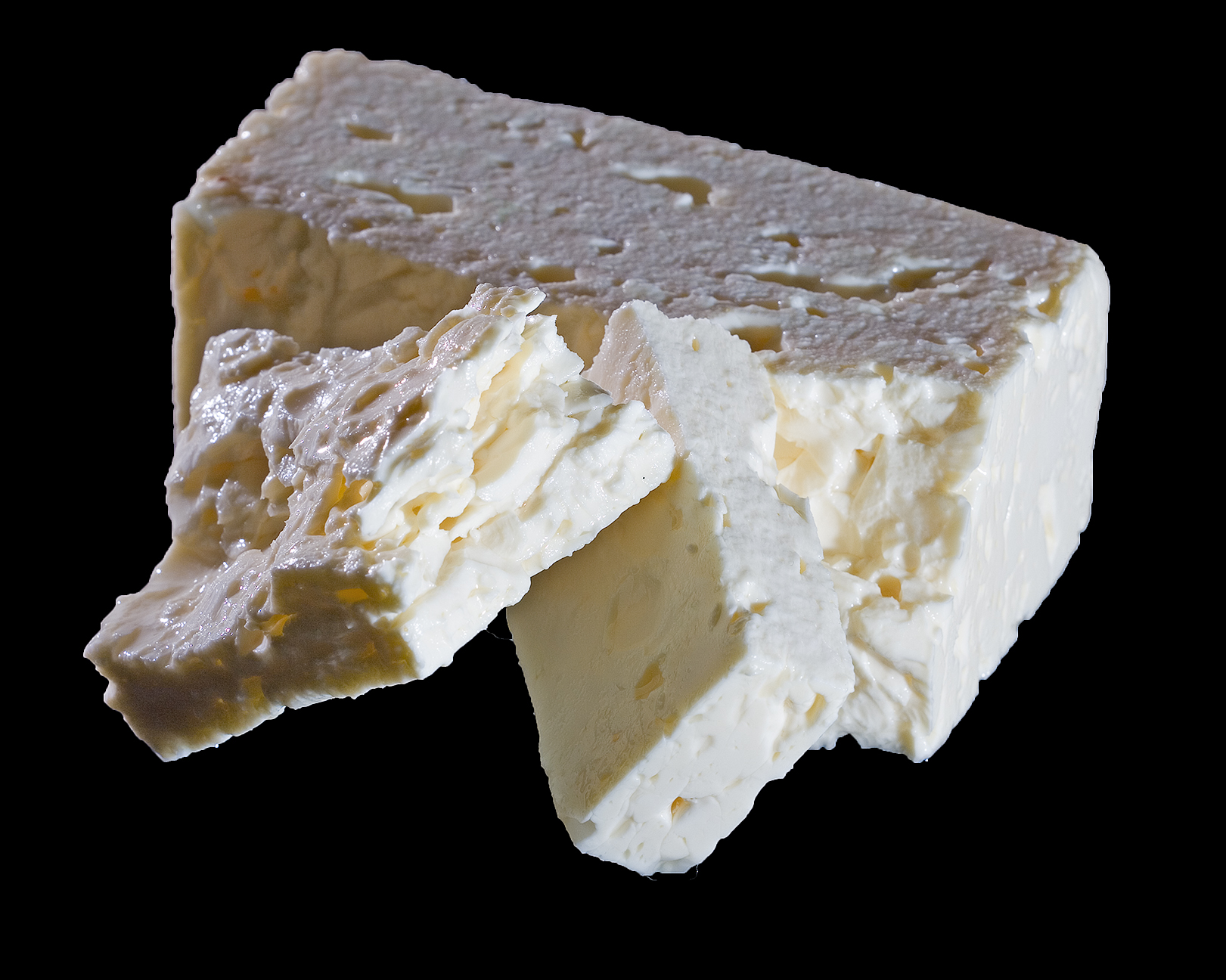 Feta Cheese Camera data Camera Canon EOS 400D Lens Canon EF 70-200mm f4L w/ 12mm extension tube Flash Flashes rear left and front right Focal length 104 mm Aperture f/11 Exposure time 1/200 s Sensivity ISO 100